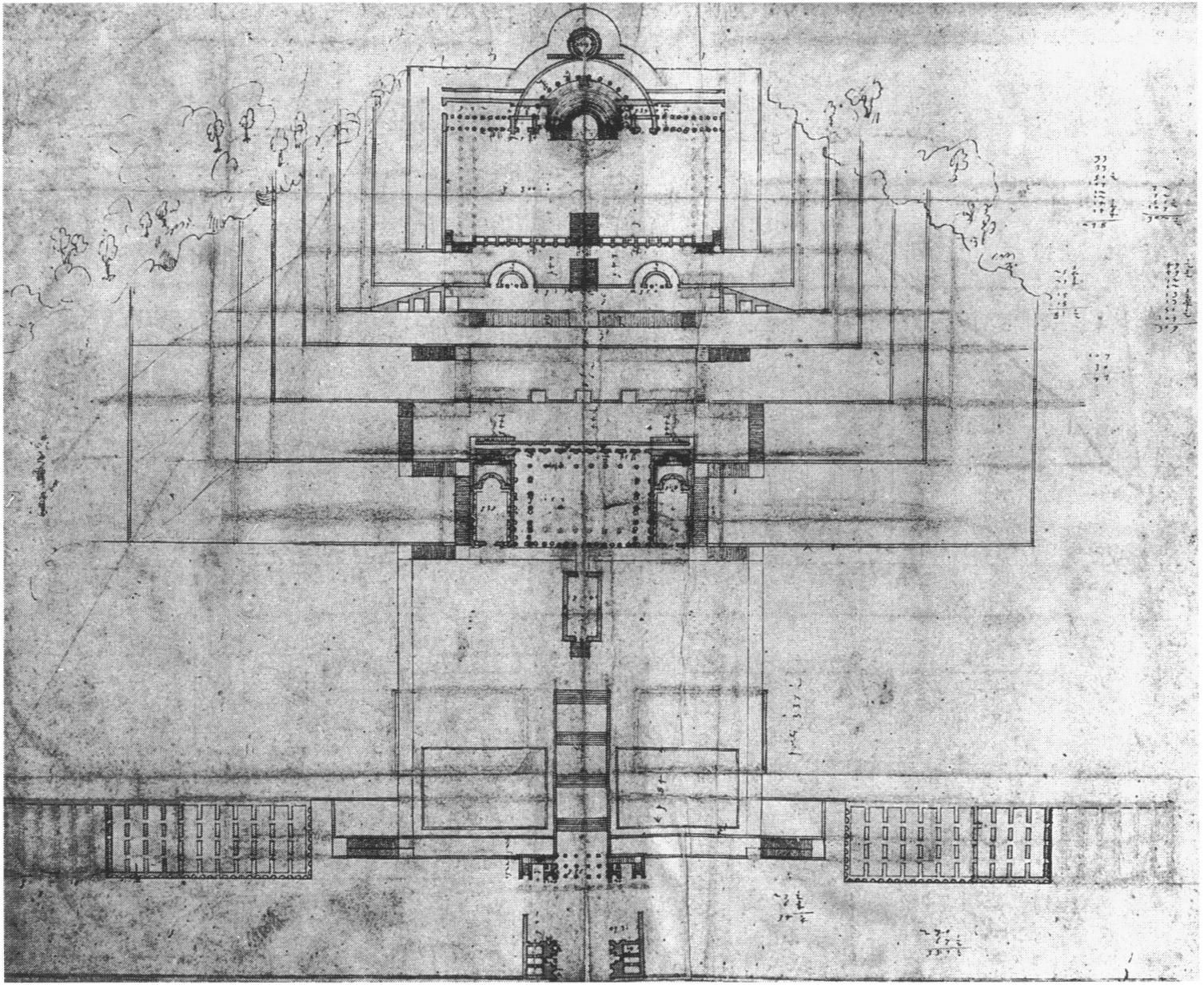 Ground view of the reconstruction of the temple of Fortuna Primigenia at Palestrina by Andrea Palladio.